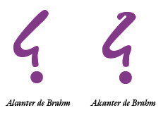 Alcanter de Brahm's Point d'ironie (Irony Mark).